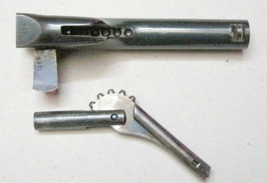 Colt 1862 Police, loading lever detail